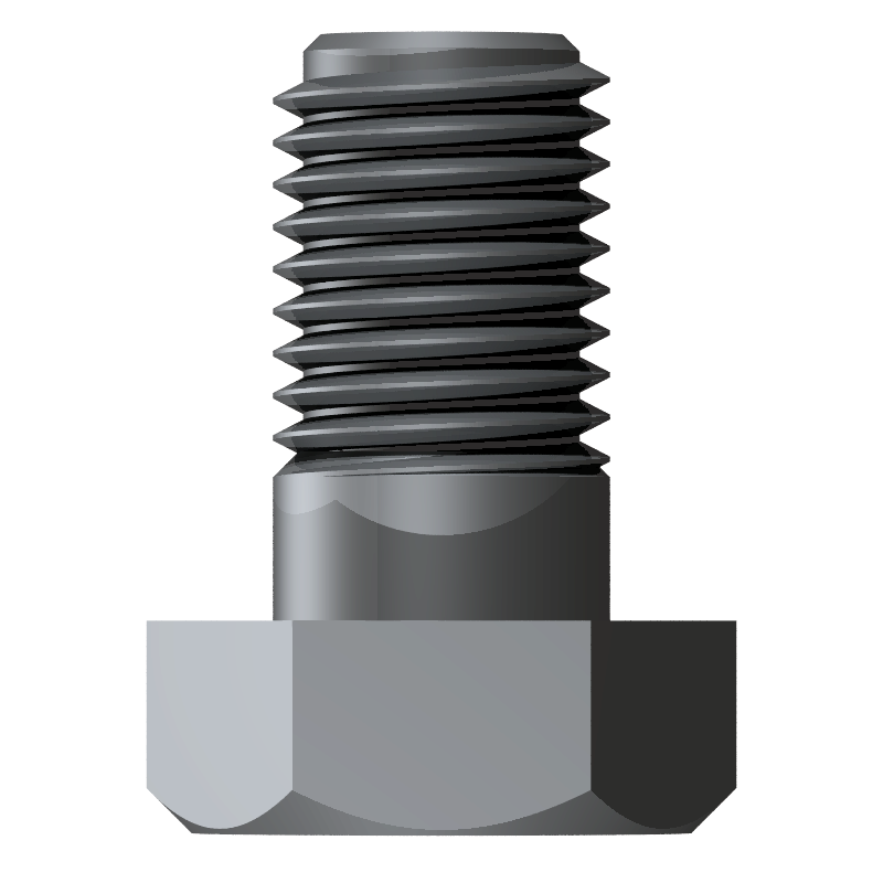 Yttre gänga